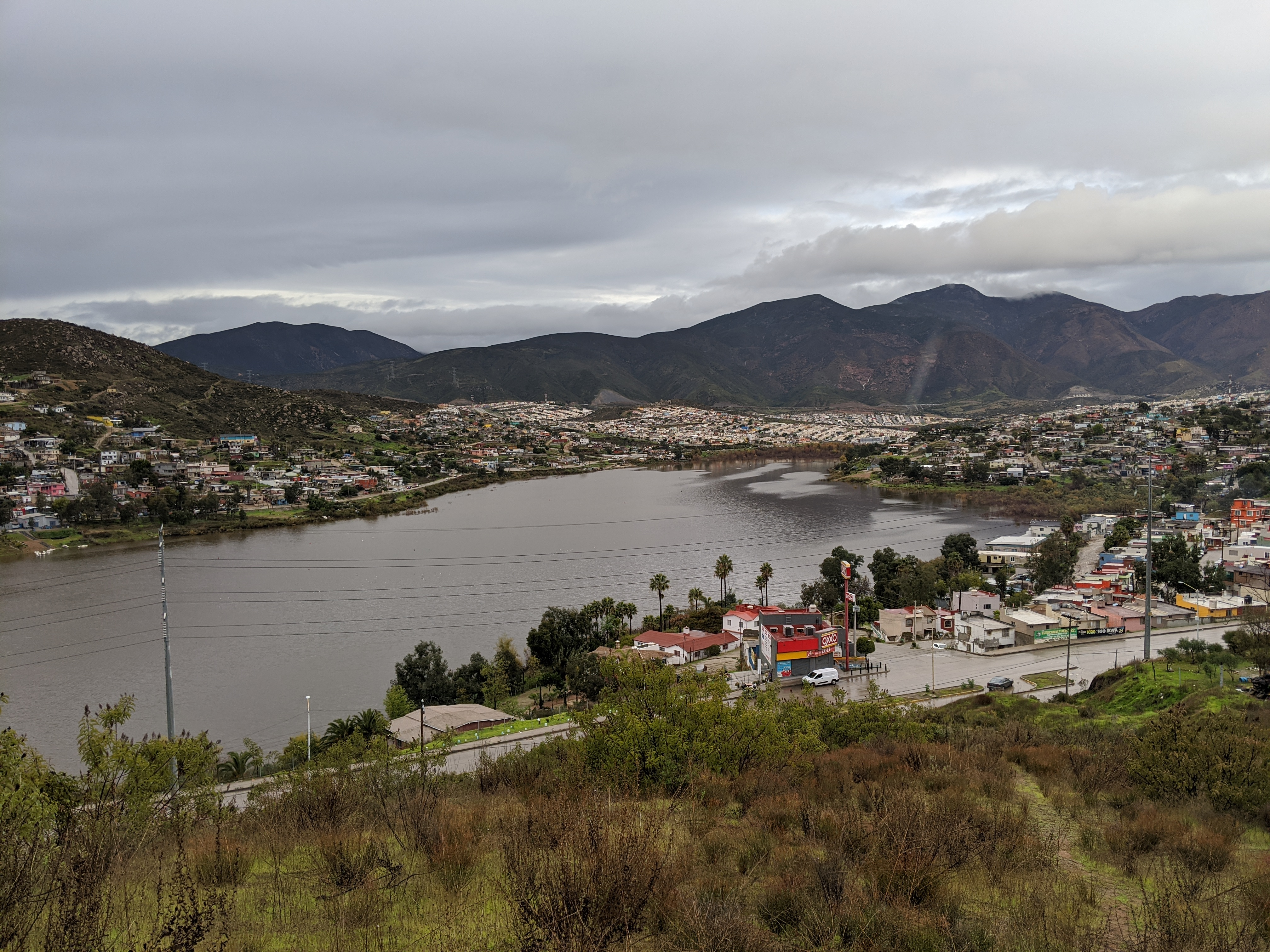 A photo of the reservoir of the Emilio Lopez Zamora dam in December 2019